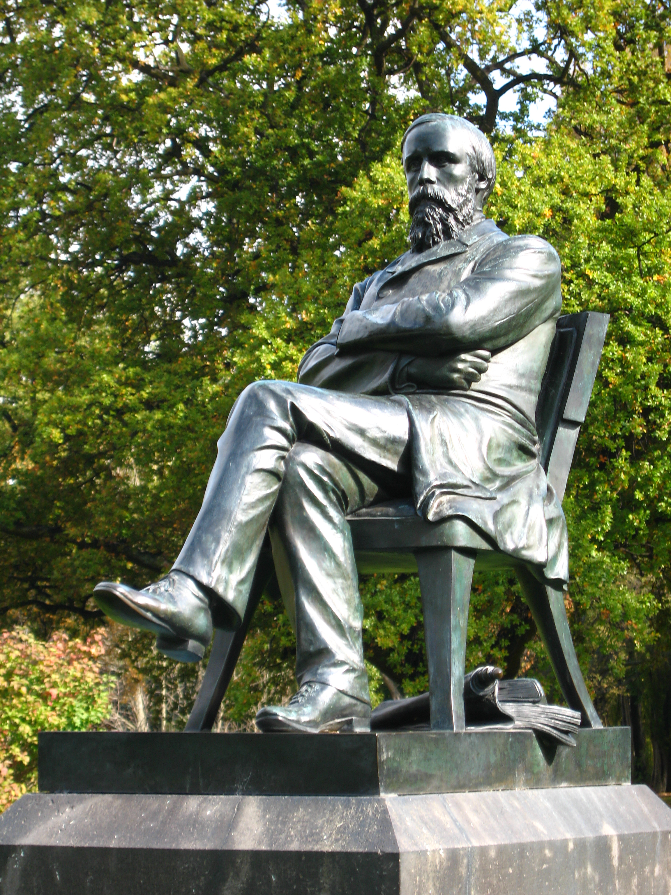 Statue of William Sefton Moorhouse, Botanic Gardens, Christchurch, New Zealand. The plinth inscription reads: WM SEFTON MOORHOUSE TO WHOSE ENERGY AND PERSEVERANCE CANTERBURY OWES THE TUNNEL BETWEEN THE PORT AND THE PLAINS.